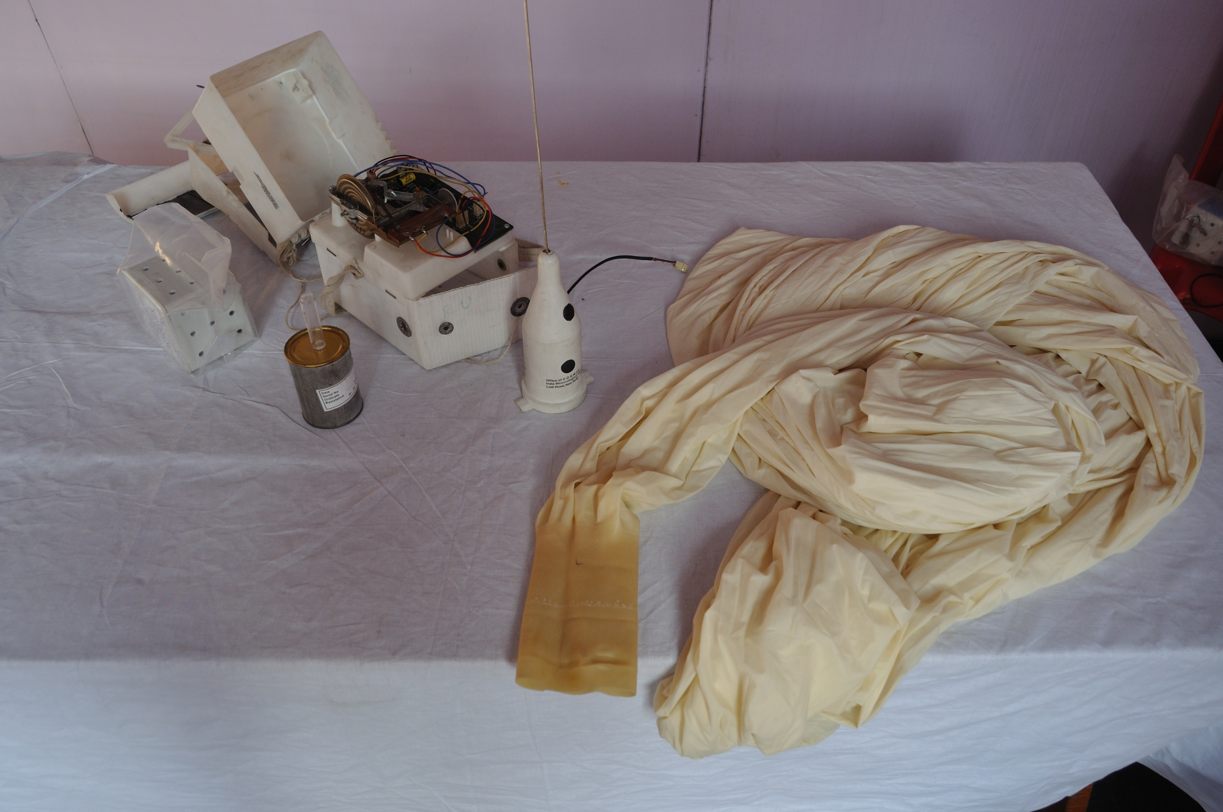 Meteorological instrument of the Indian Meteorological Department.